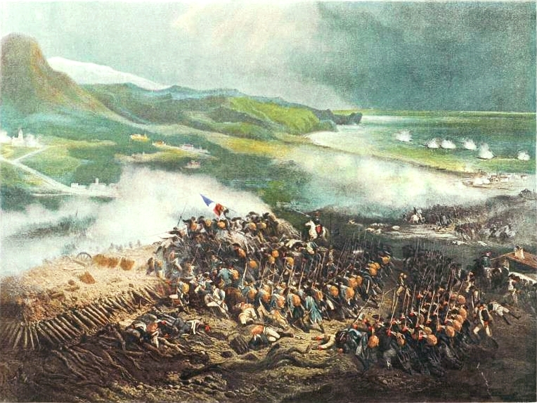 Battle of Loano